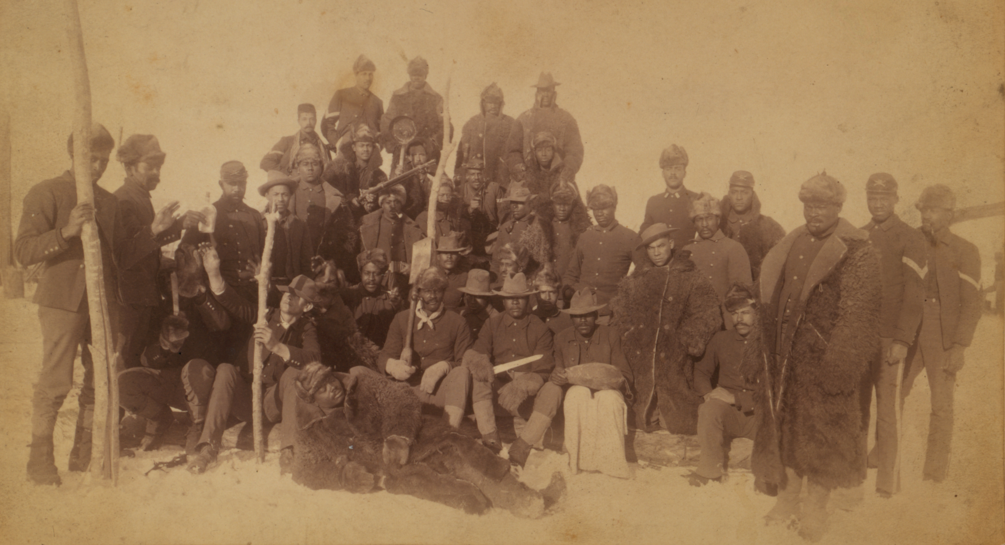 Buffalo soldiers of the 25th Infantry, some wearing buffalo robes, Ft. Keogh, Montana